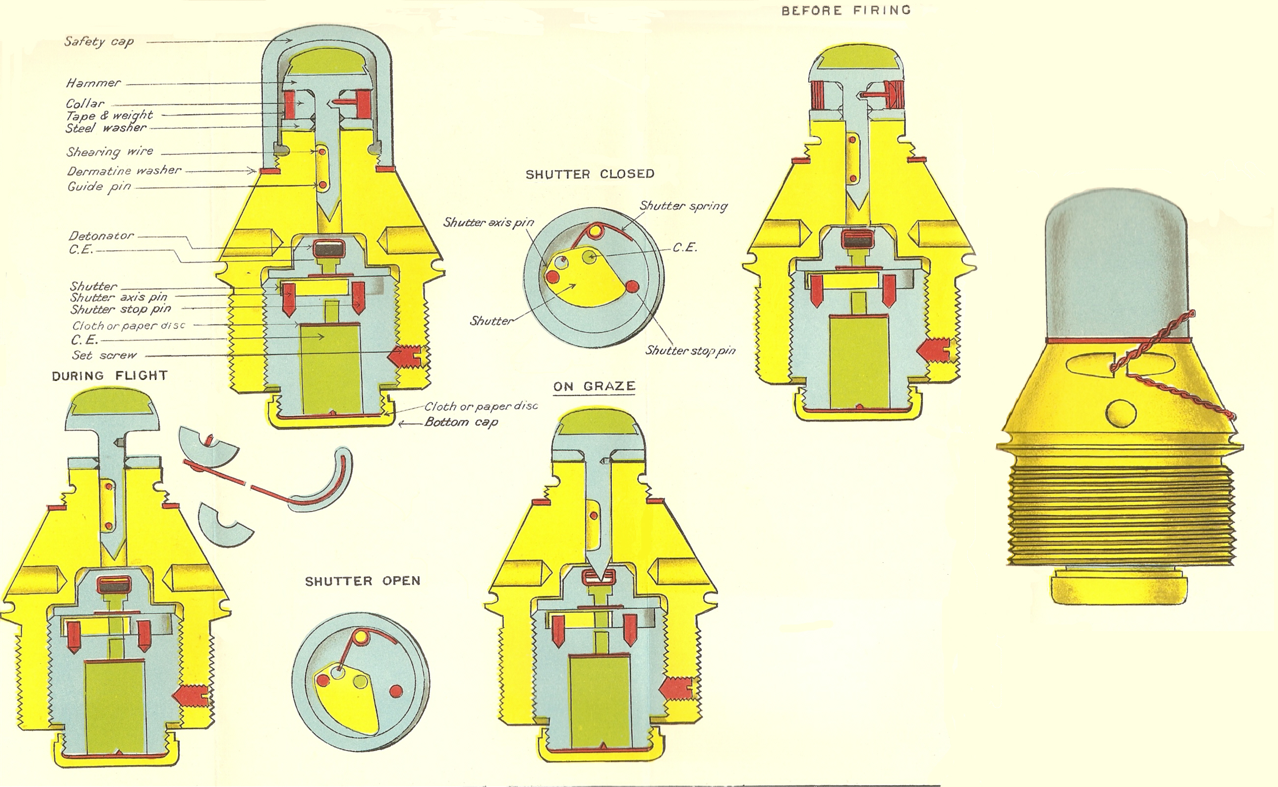 Diagrams showing British No 106E Mk 4 Direct Action percussion fuze introduced in the middle of World War 1 and used with HE and Smoke, showing the safety & arming sequence. NOTE : "On graze" should read "On impact". This was a direct action impact fuze, not a graze fuze.